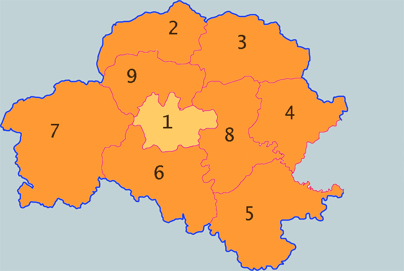 Municipalities of Zhumadian city, China